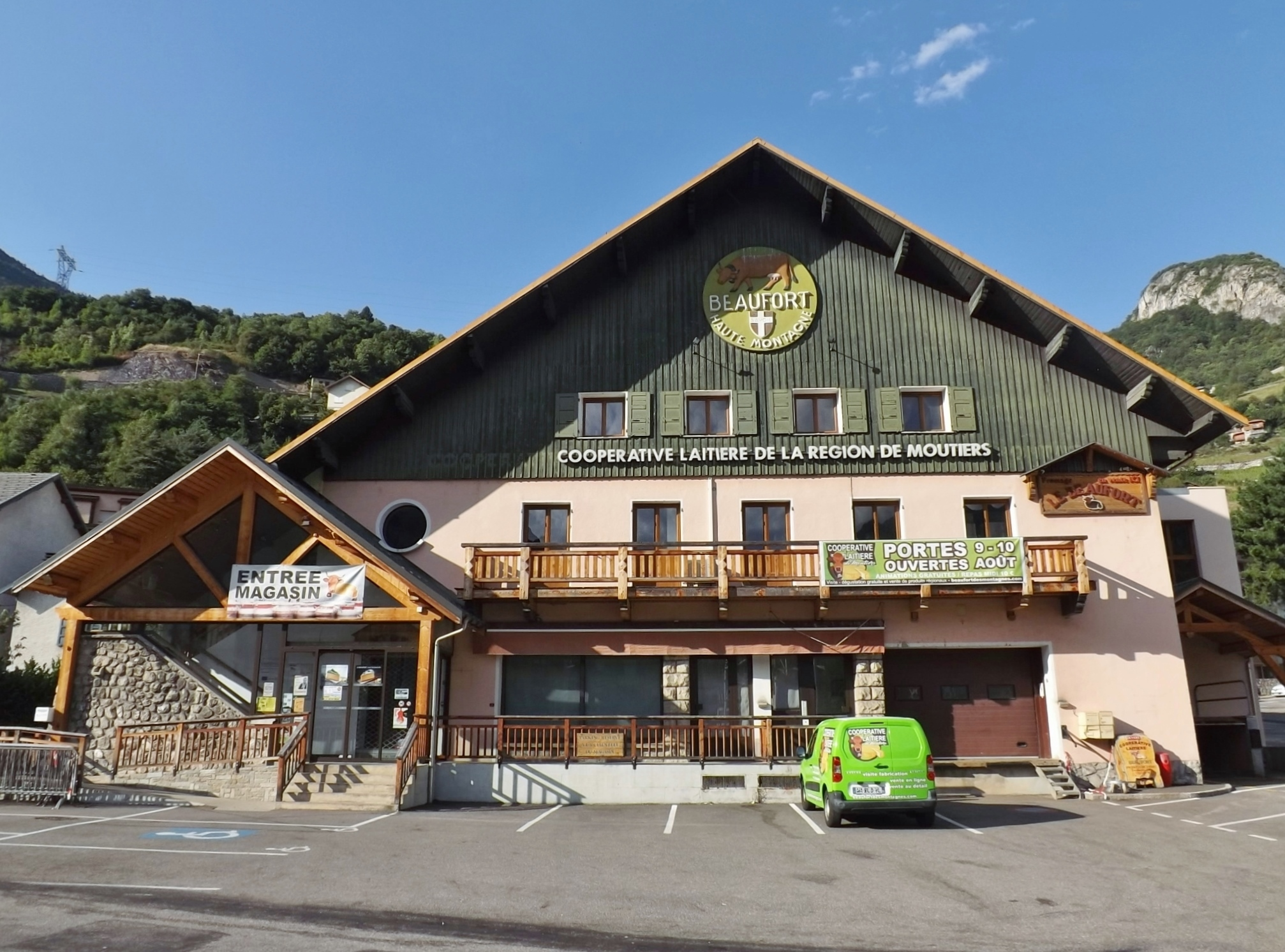 Sight of the dairy cooperative building of Moûtiers and its surroundings, in the Tarentaise valley of Savoie, France.